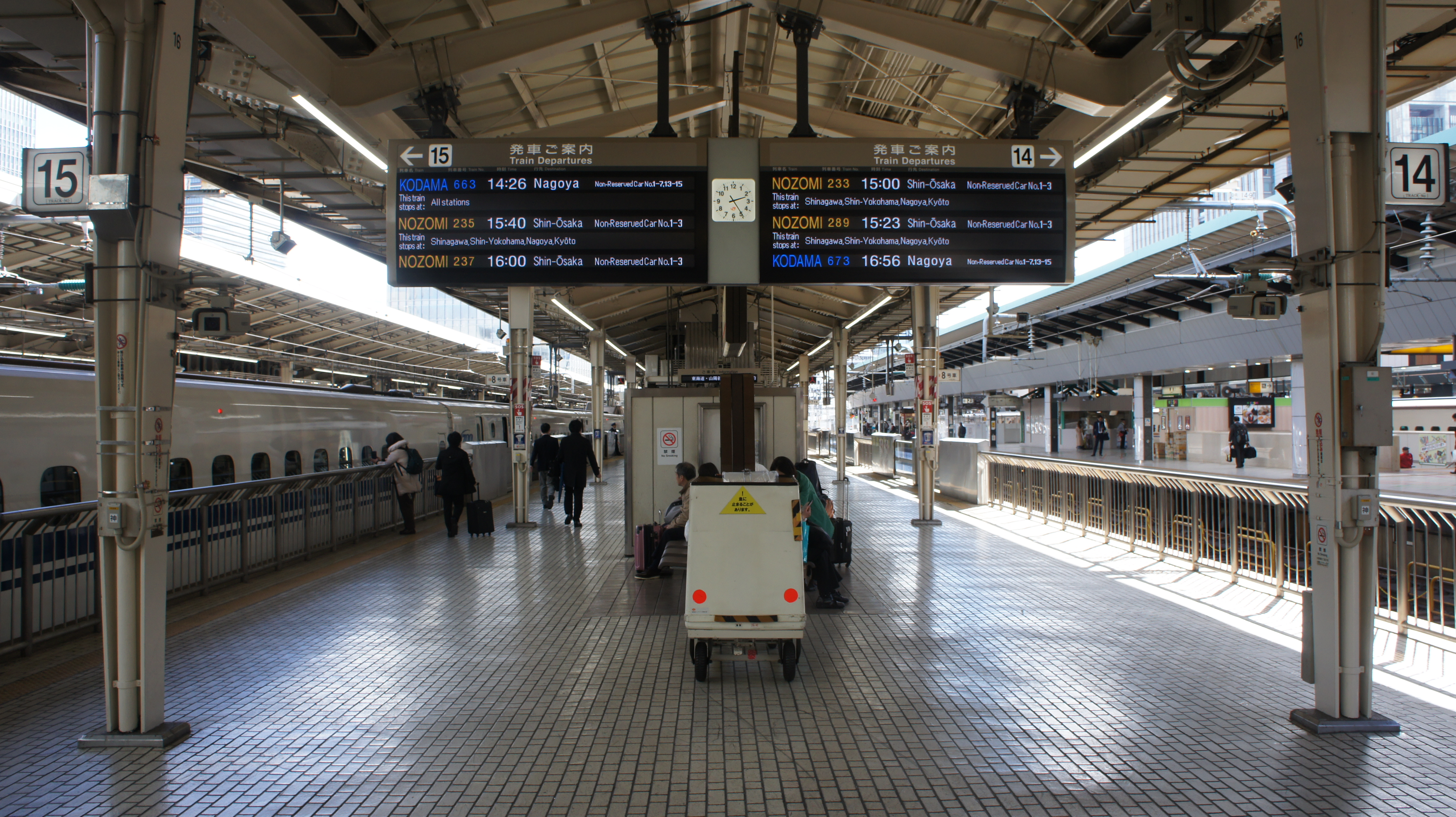 JR Tokyo Station Platform 14・15 (Tokaido Shinkansen) Sony NEX-3 + E 18-55mm F3.5-5.6 OSS